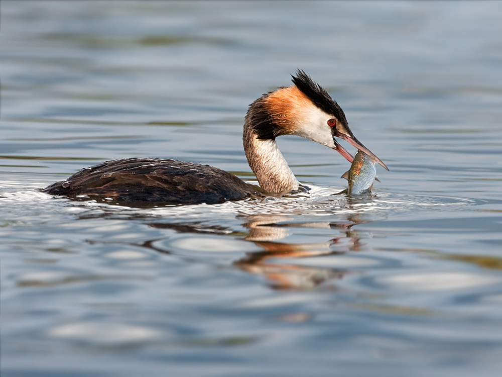 An adult Great Crested Grebe in Hogganfield Loch, Glasgow, Scotland. It has caught a fish